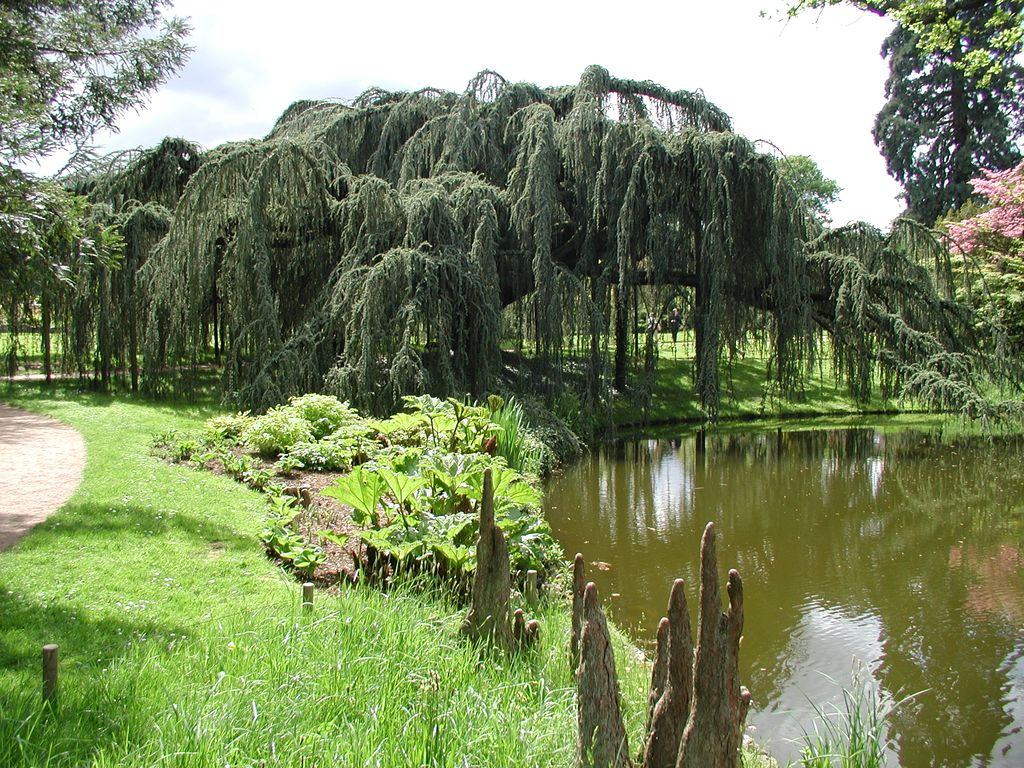 Cèdre bleu pleureur de l'Atlas (Arboretum de la Vallée-aux-Loups Châtenay-Malabry, France) Weeping blue Atlas cedar (Cedrus libani var. atlantica 'Glauca Pendula') author: Jean-Luc Bailleul This is the first plant of the 'Gluca Pendula' as this plant was supposed to be a 'Glauca', but had the mutation 'Pendula'.